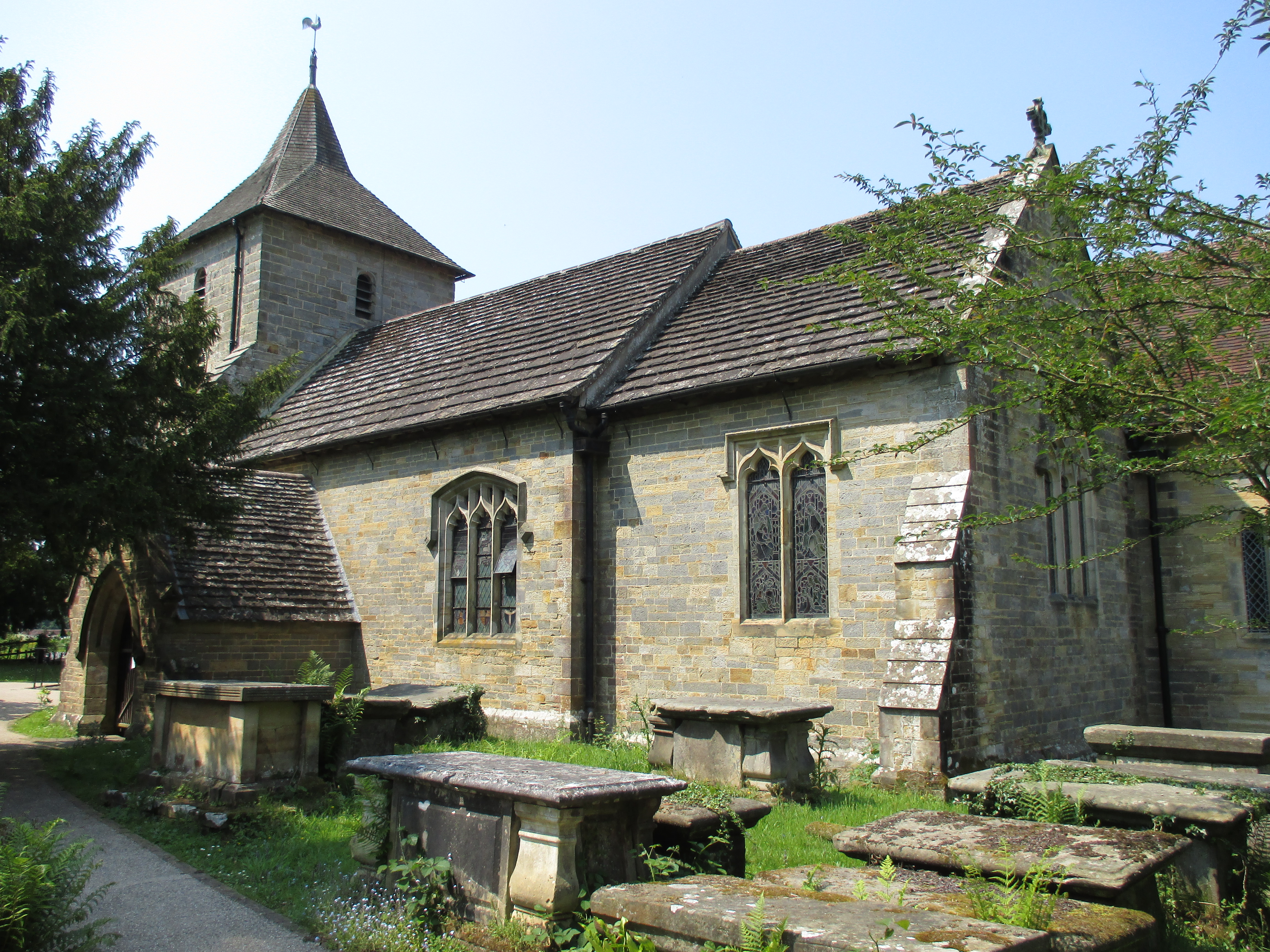 St. Mary's church, Balcombe, West Sussex, seen from the south-east.